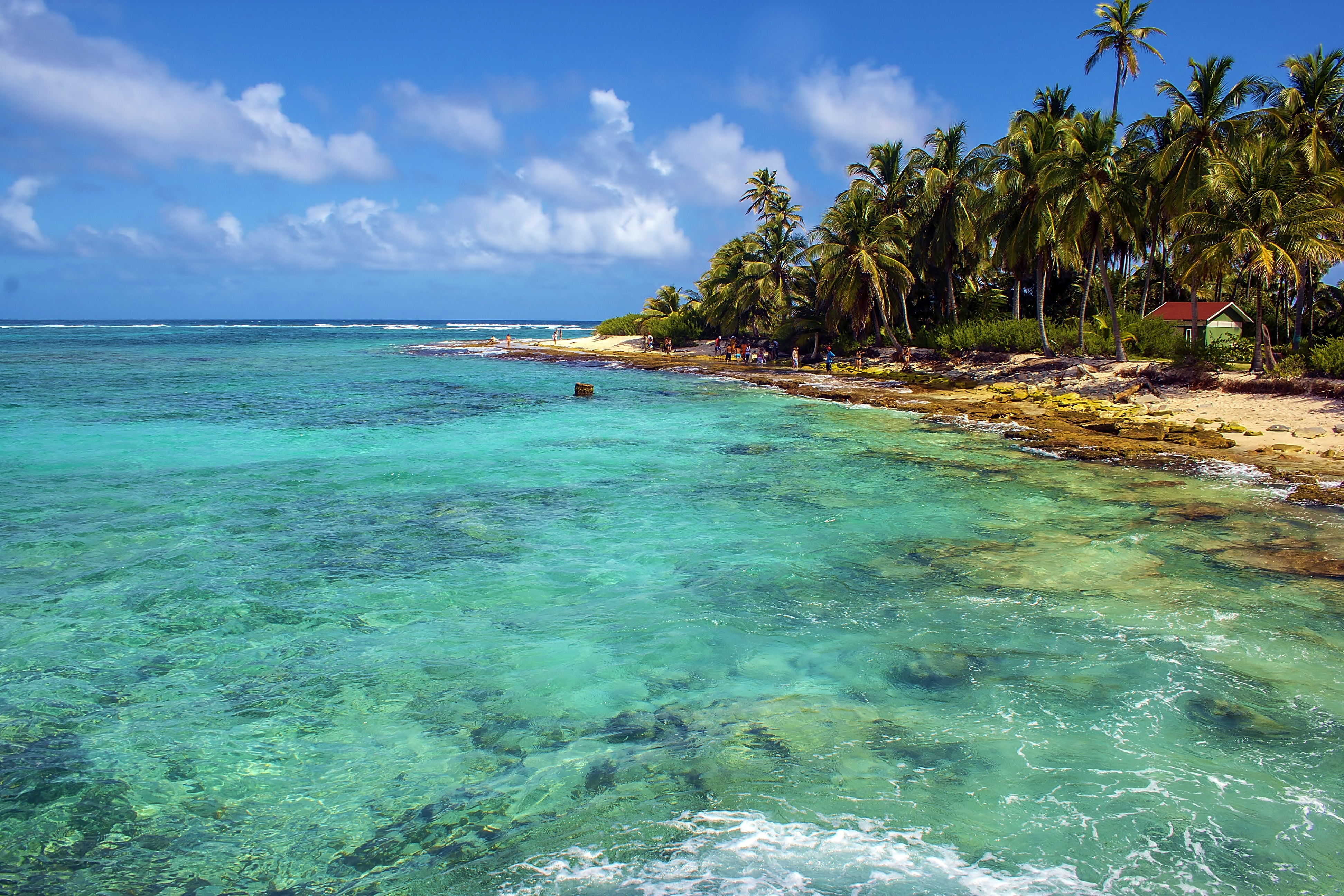 Johnny Cay, Colombia.